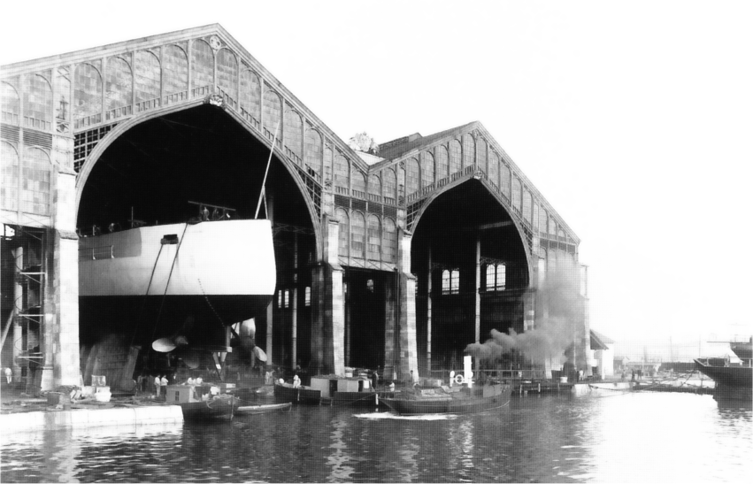 The Armoured cruiser SMS Sankt Georg of the Austro-Hungarian Navy, shortly before it's completion